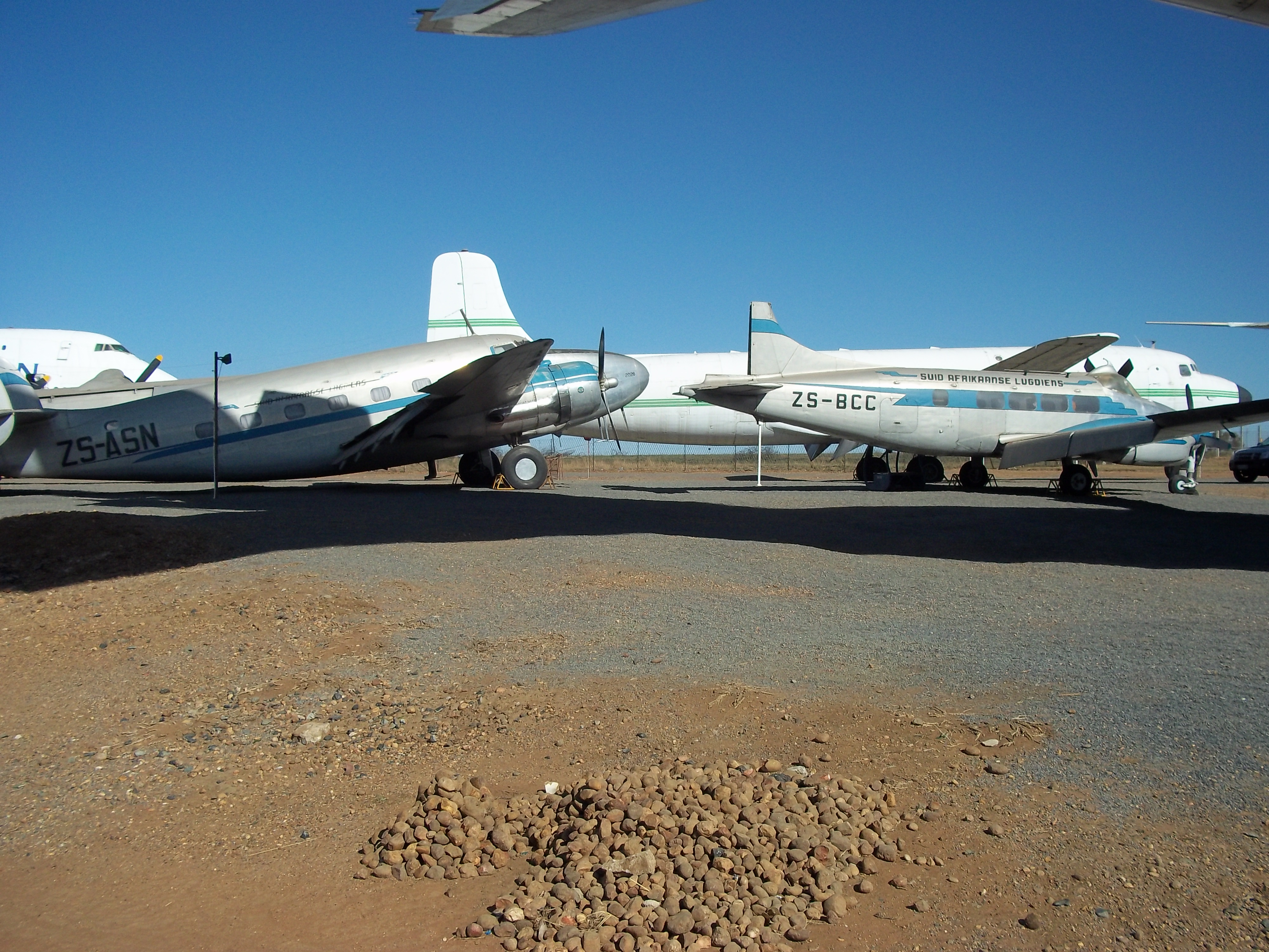 Aircraft on view at the South African Airways Museum Society at Rand Airport, Germiston, South Africa. In this picture, de Havilland DH 104 Dove (ZS-BCC) and Lockheed L18-08 Lodestar (ZS-ASN)